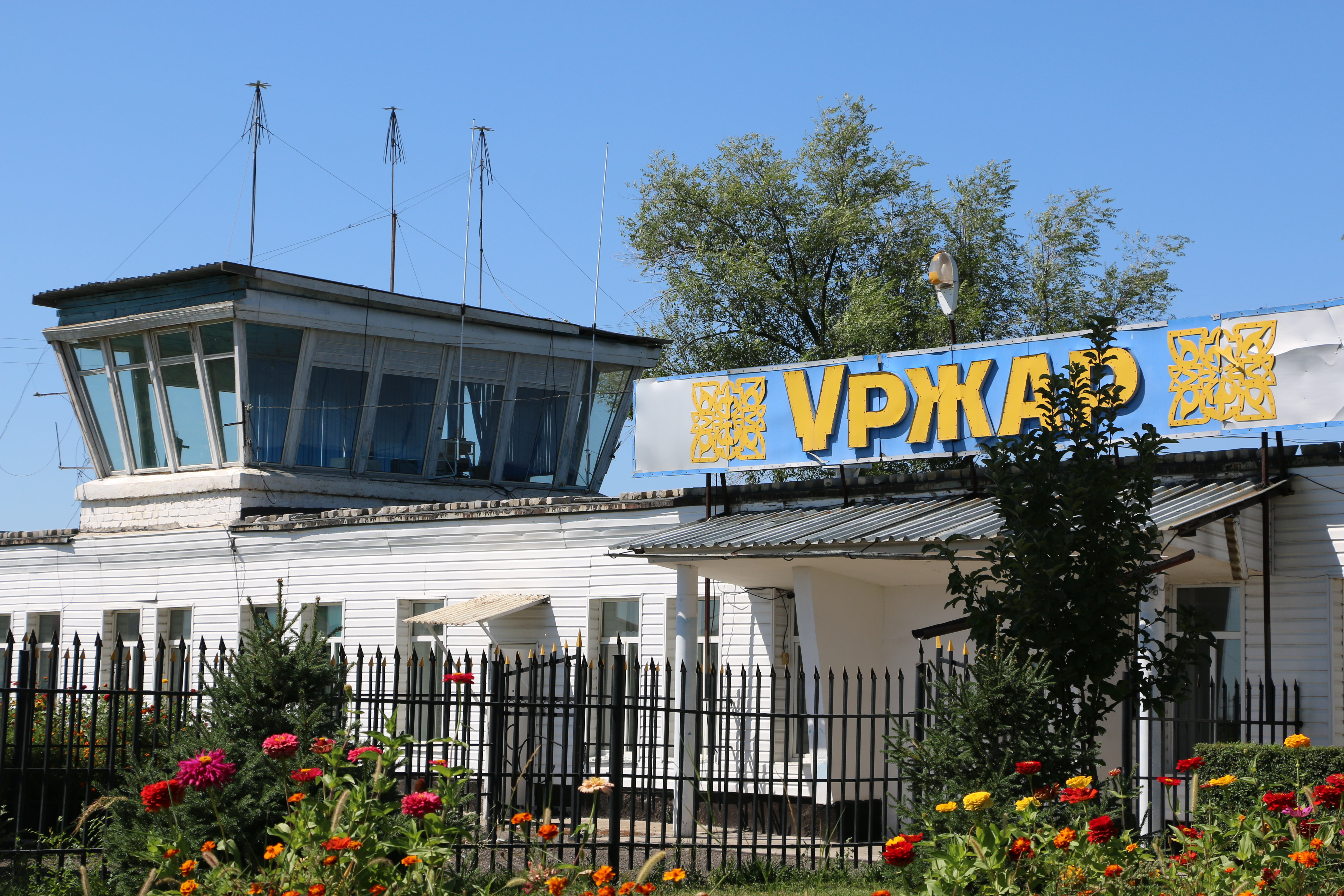 Urzhar Airport